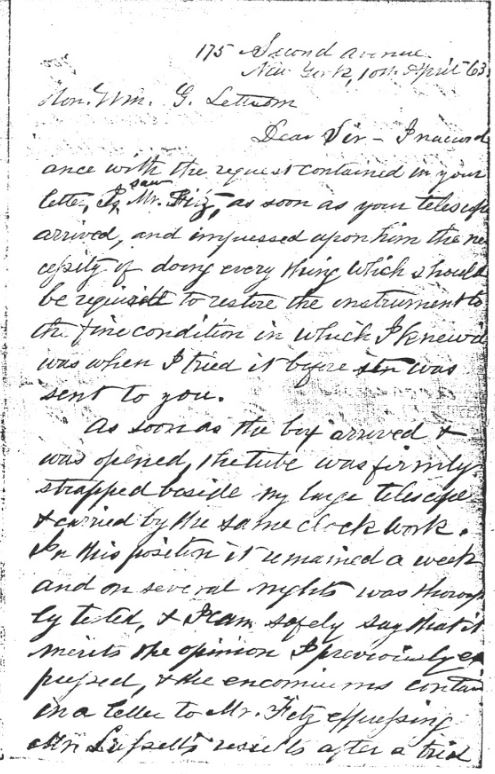 Rutherford - Lettsom letter, regarding Henry Fitz telescope